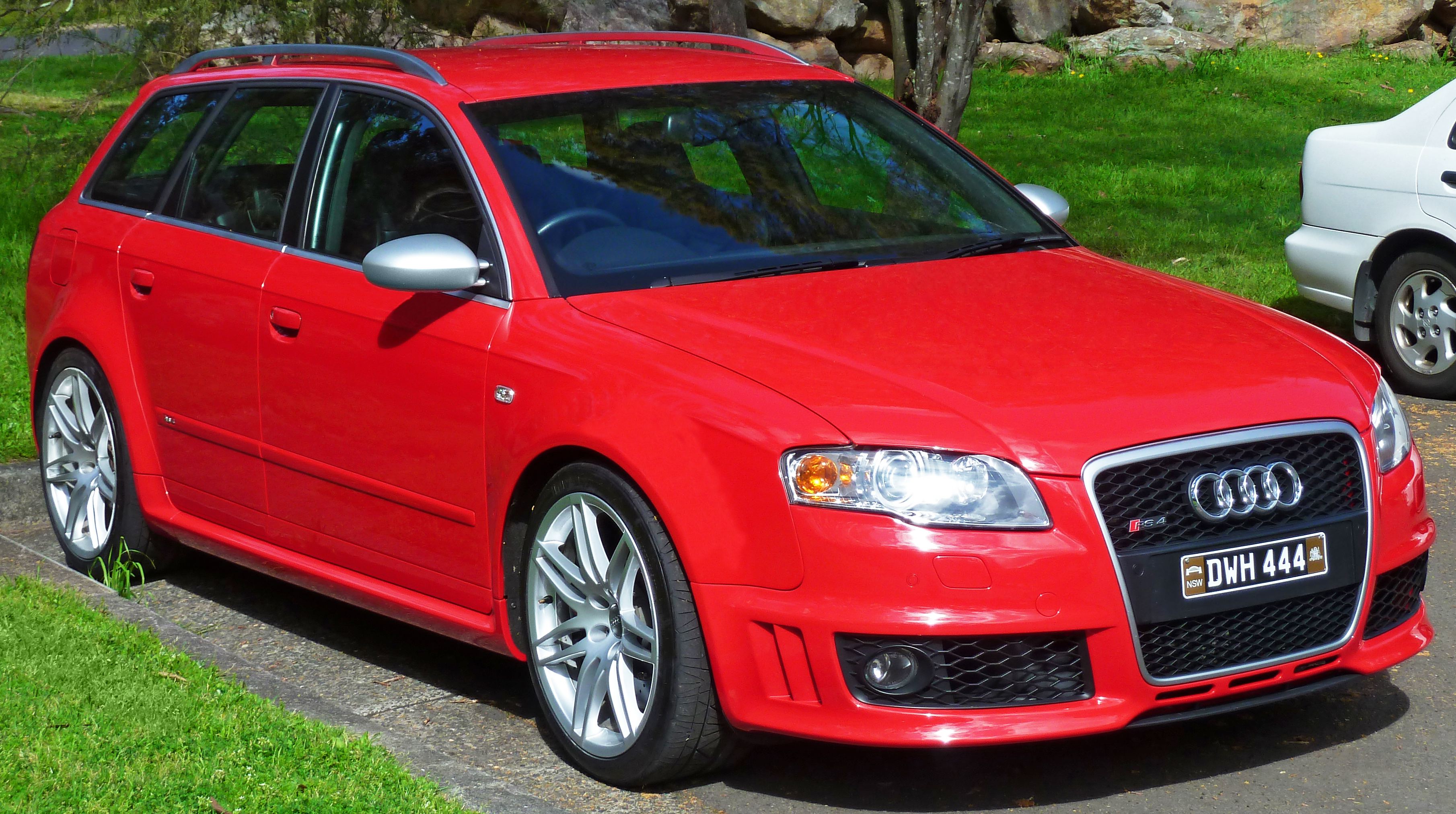 2006–2008 Audi RS 4 (8ED) quattro Avant. Photographed in Macquarie Park, New South Wales, Australia.